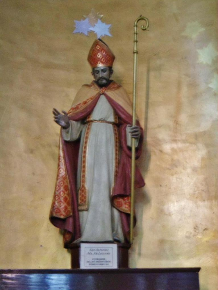 Shrine of Our Lady of Perpetual Help, San Luis Potosi city, San Luis Potosi state, Mexico